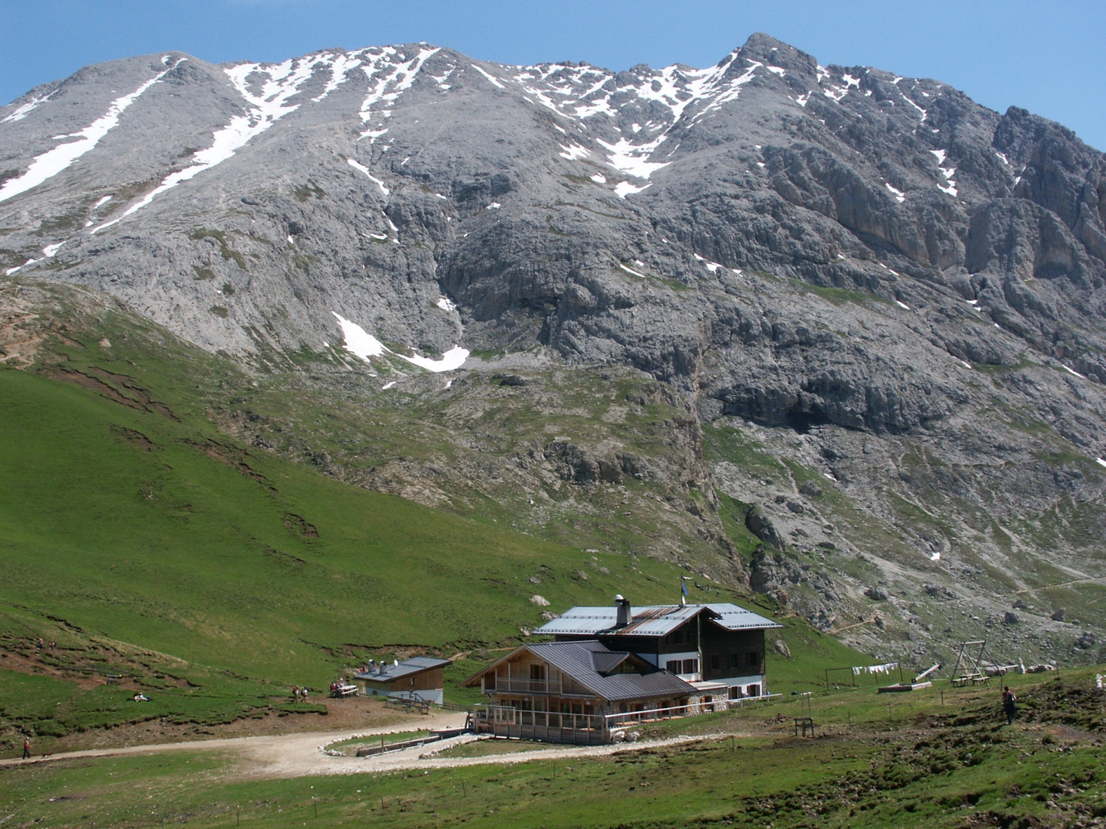 Plattkofel (Dolomites, Italy); with Plattkofel hut.